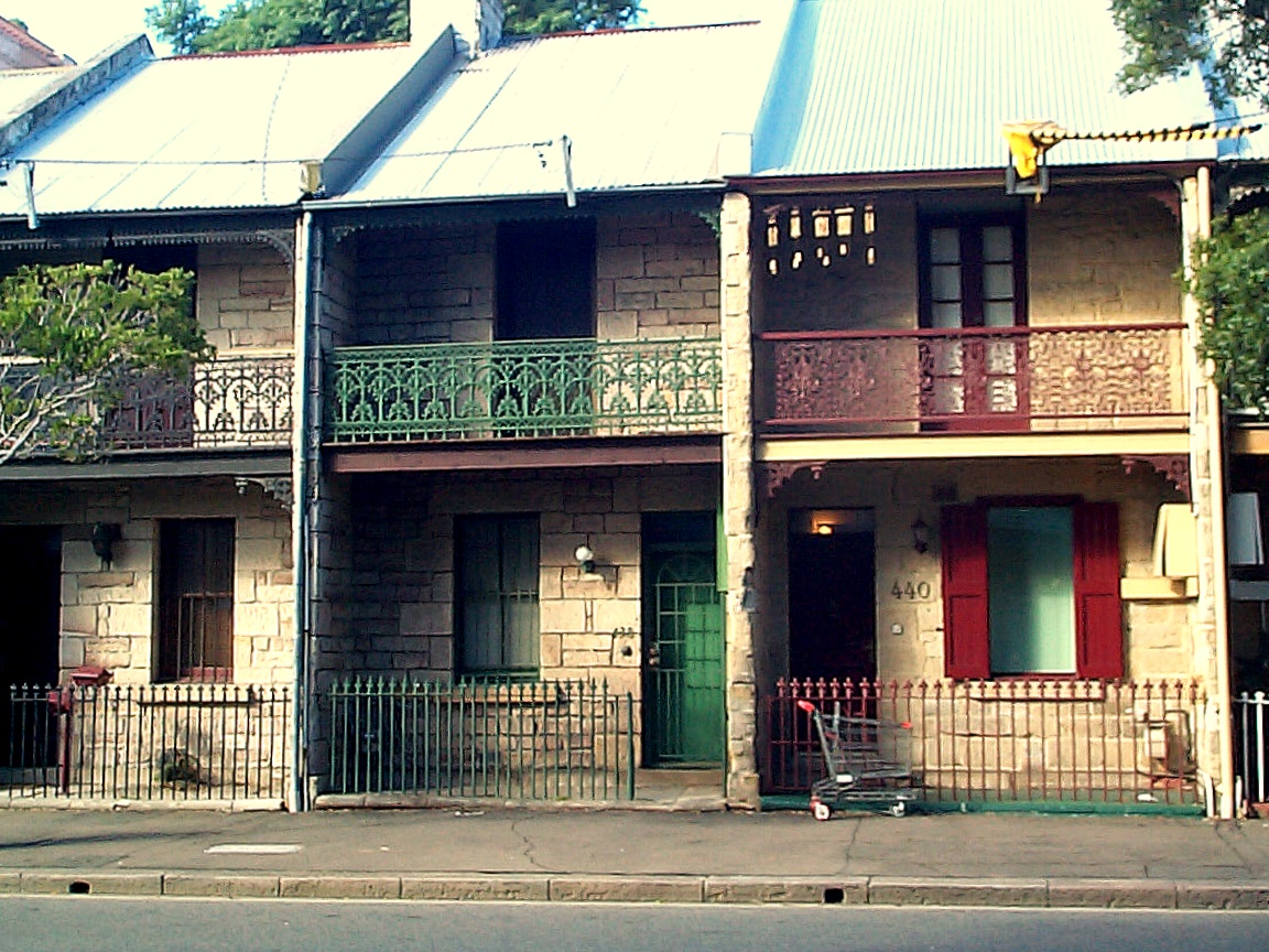 Photo taken by Michael Gardner, March 2007 Wattle Street, Ultimo